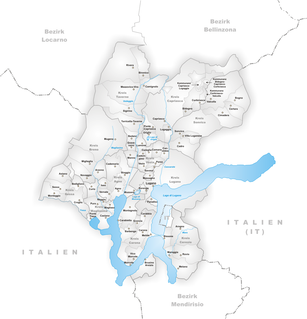 Municipalities of District Lugano